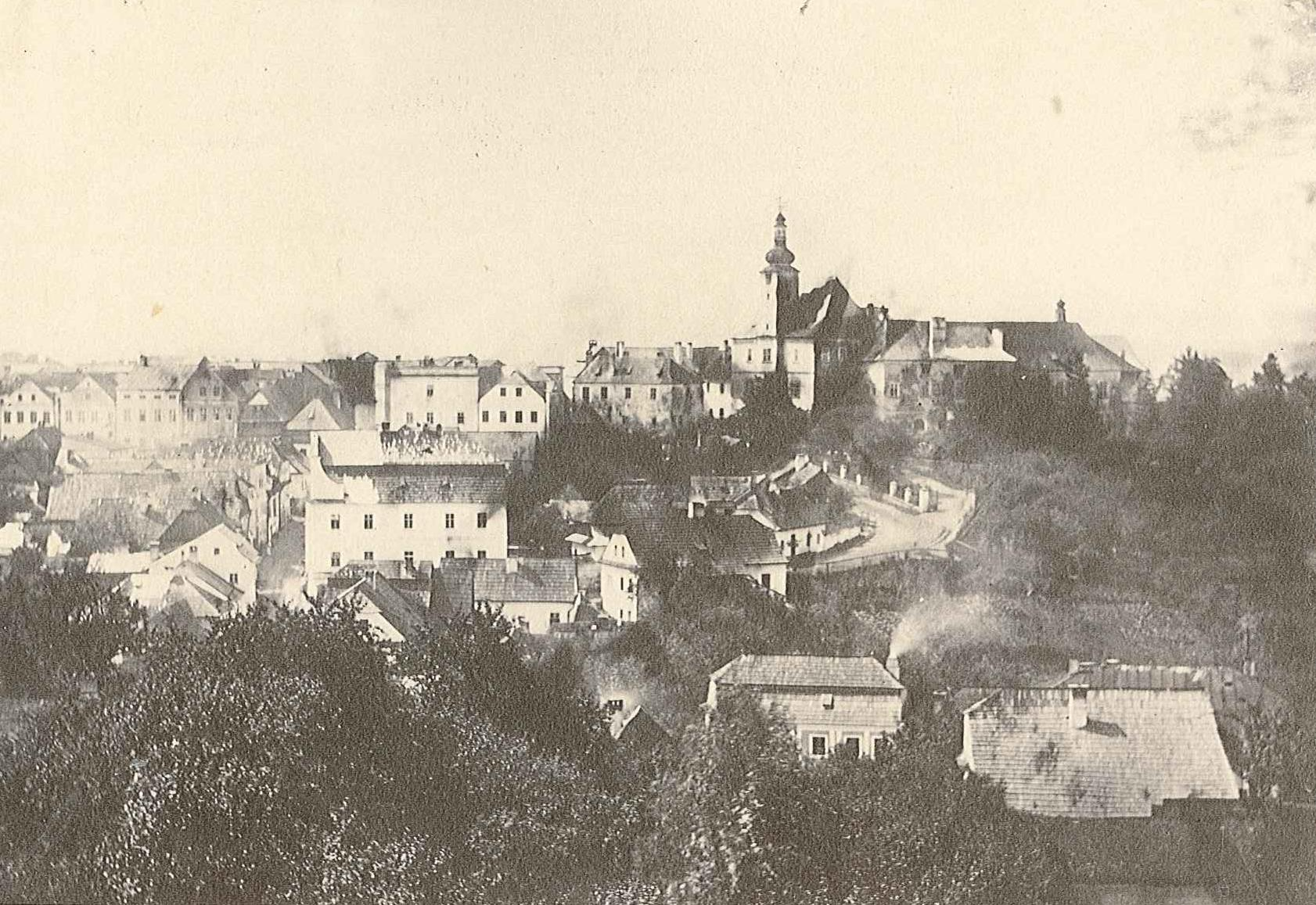 An early photograph of the town of Frýdek (Friedeck), ca. 1865